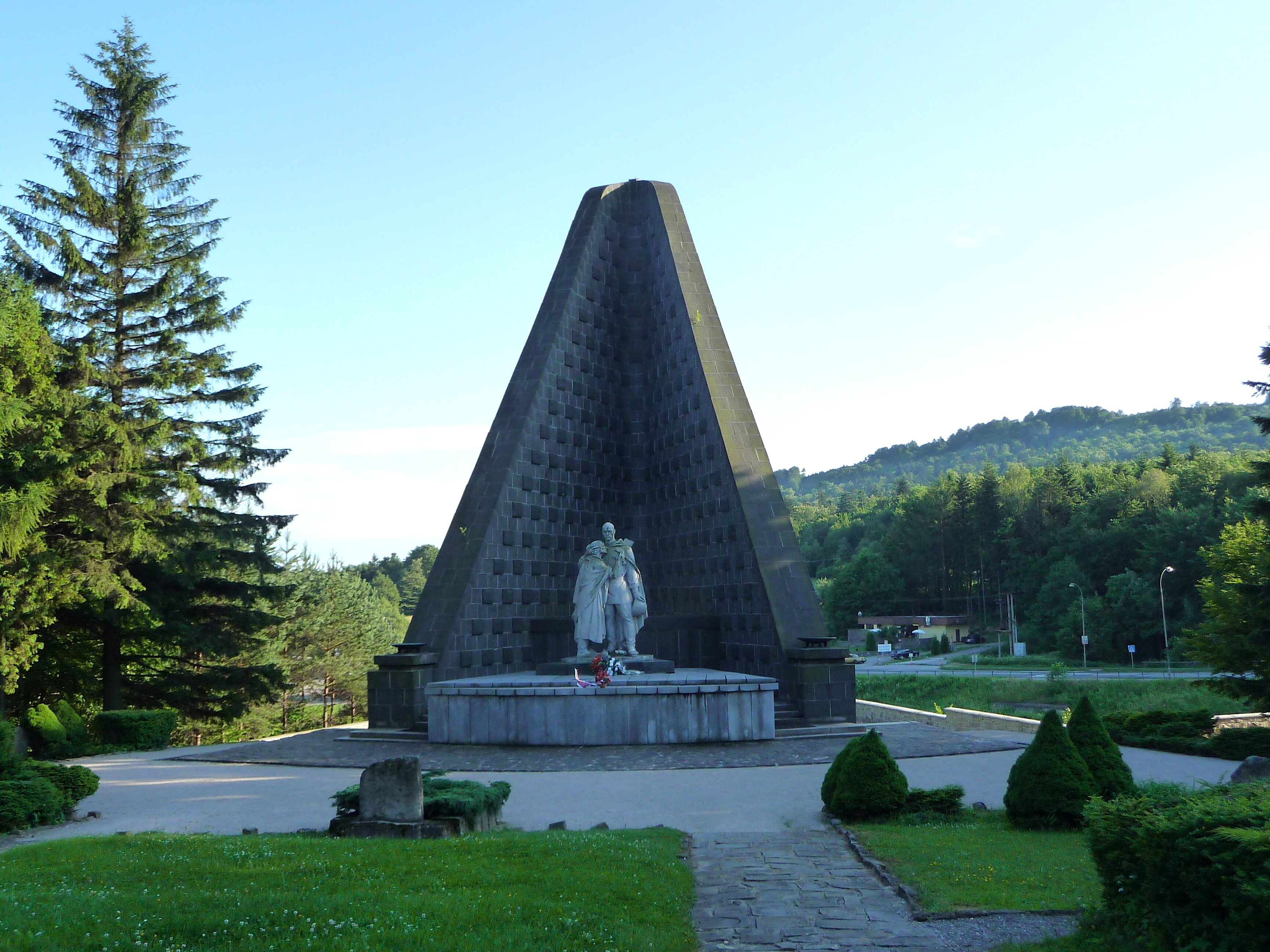 Czechoslovak Army Memorial near the Dukla Pass (Prešov Region, Slovakia).